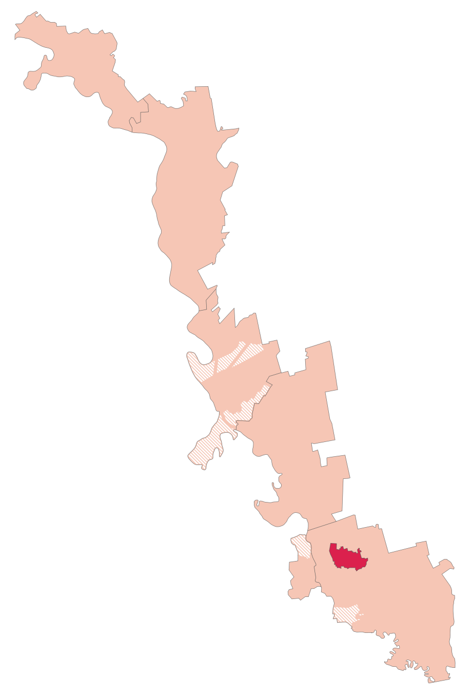 Raions of Transnistria: Tiraspol